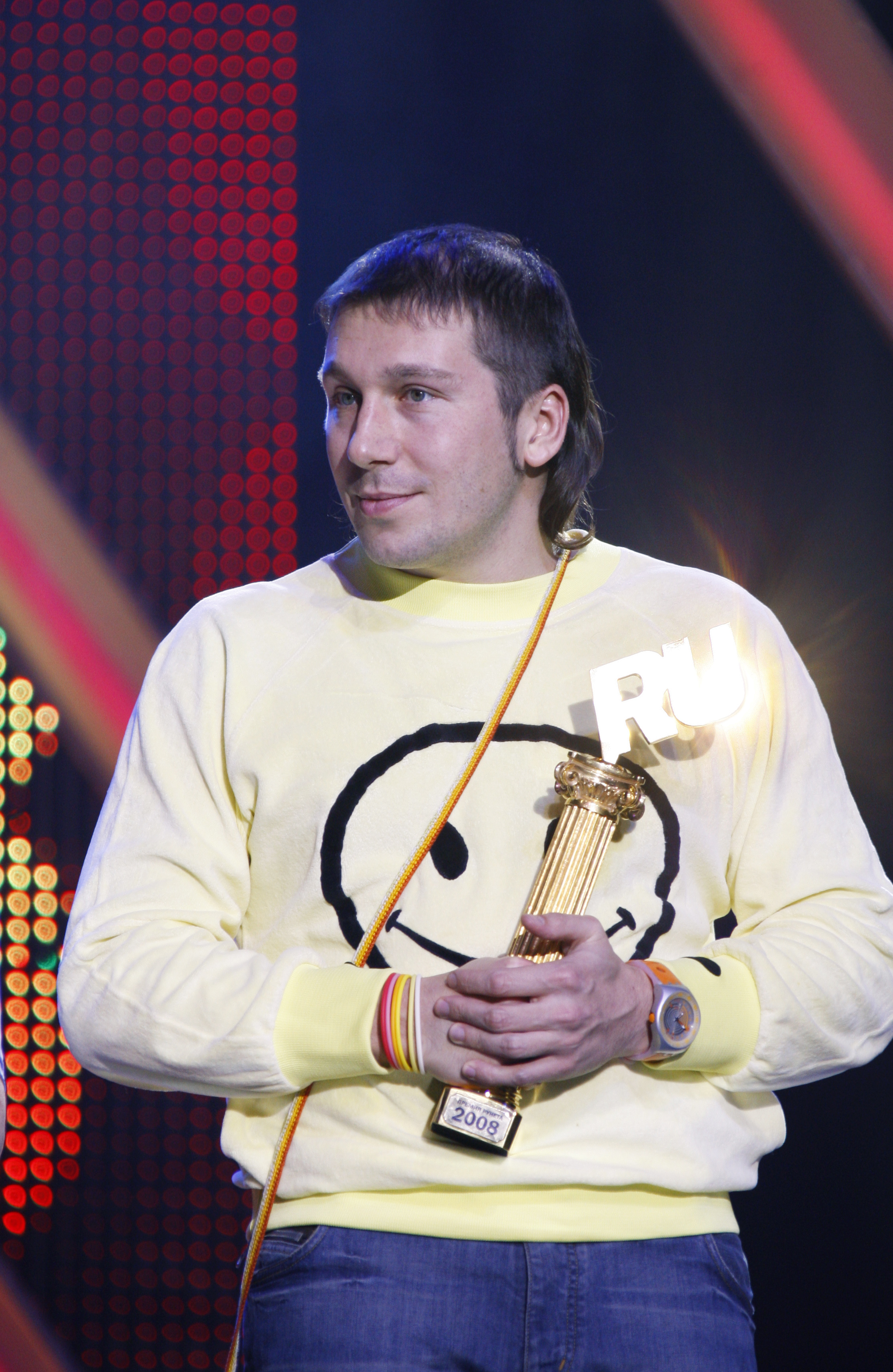 “Former Euroset chairman Yevgeny Chichvarkin at Russia's 2008 Runet Awards”. Yevgeny Chichvarkin, former chairman of Russia's leading mobile retailer Euroset, receiving award for the site of the company's fund at Russia's 2008 Runet Awards.